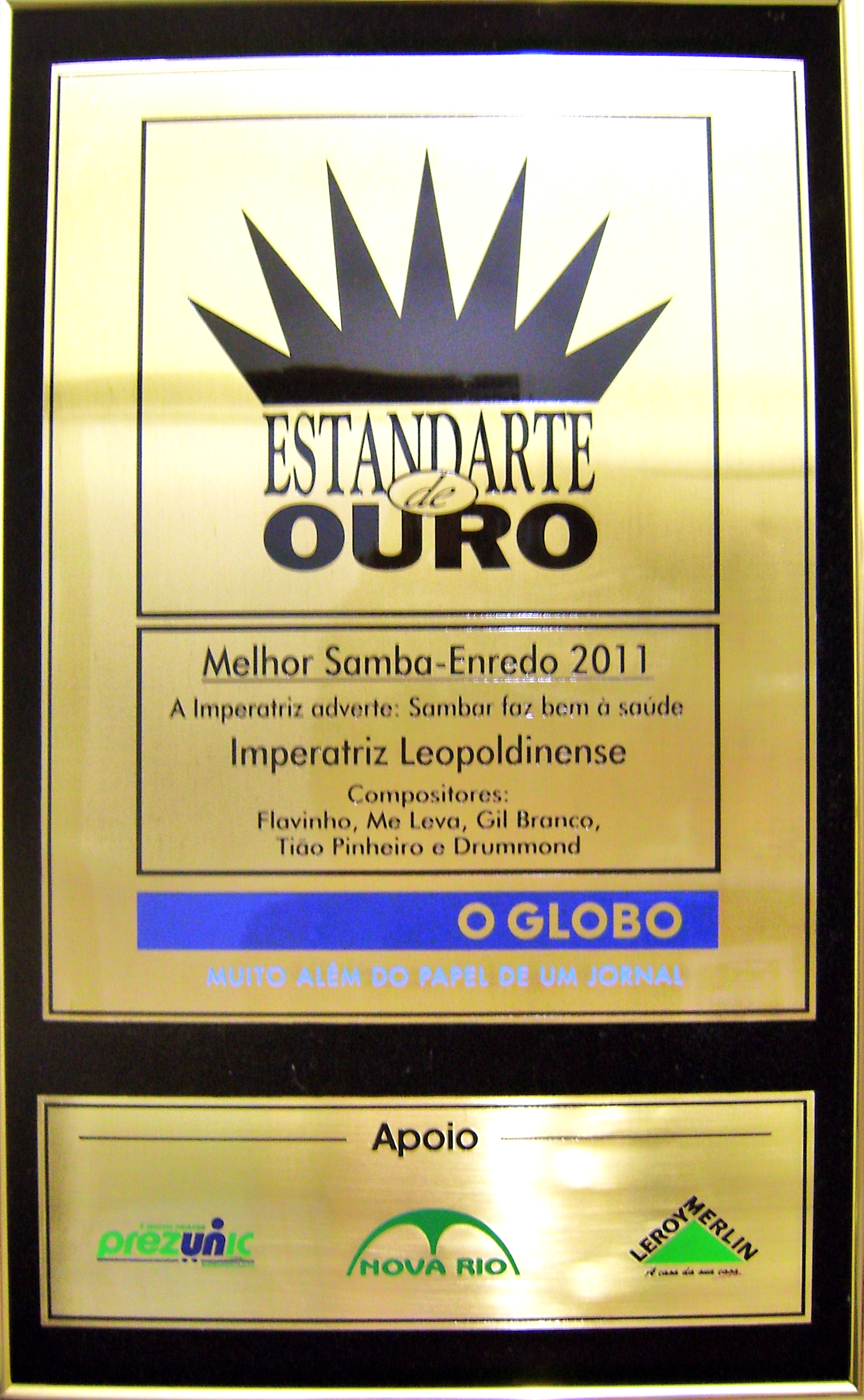 Prize Estandarte de Ouro - Best Samba-Enredo 2011